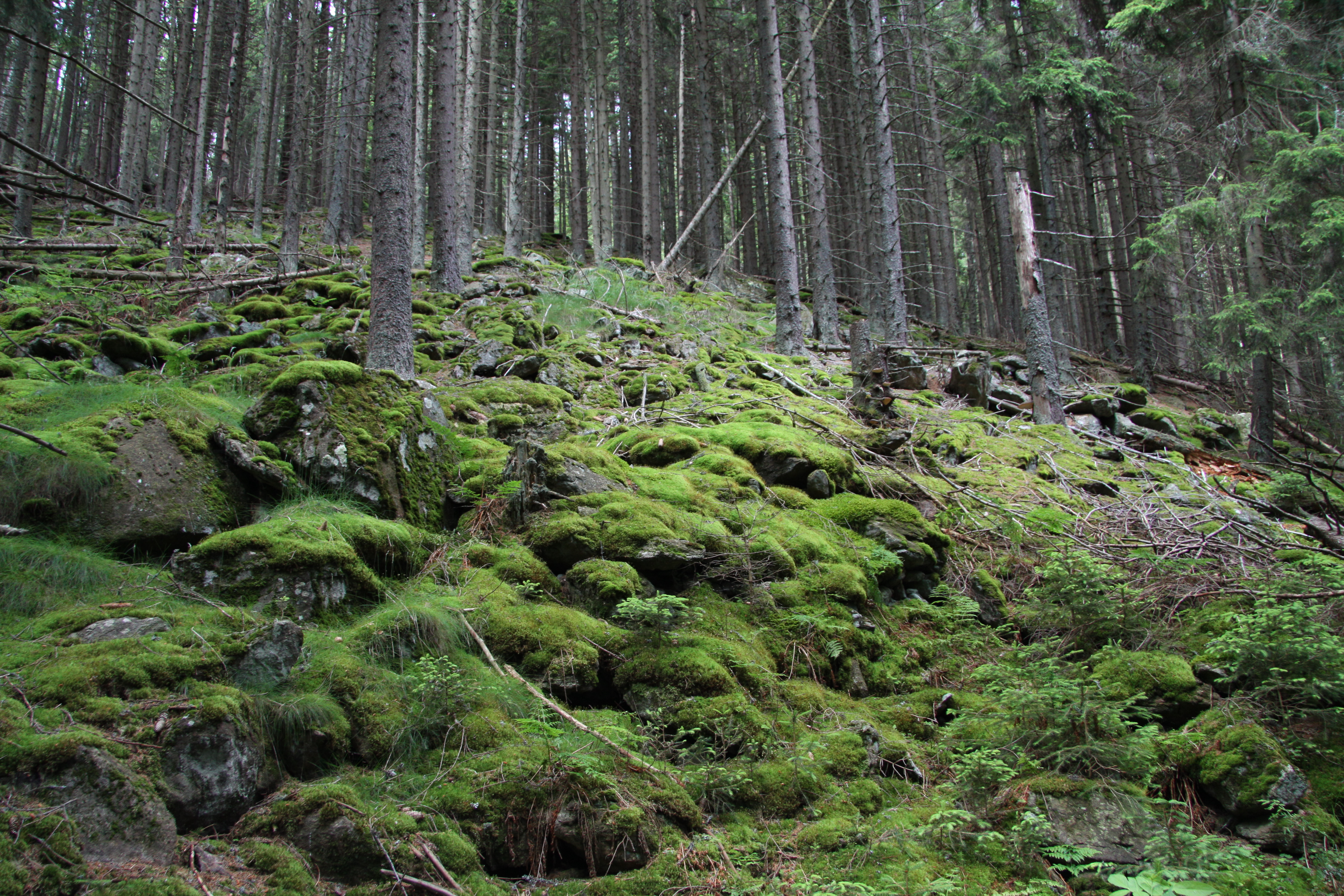 National nature reserve Boubínský prales during NS Boubínský prales trail, Prachatice District, Czech Republic